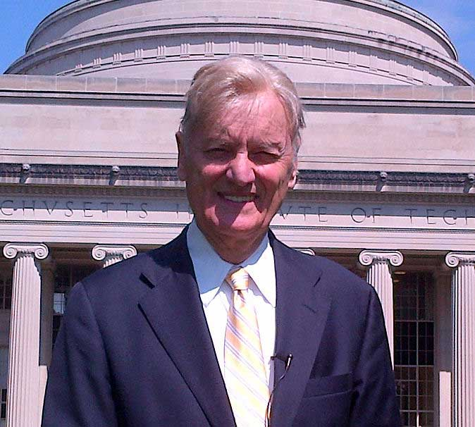 John Donovan at MIT